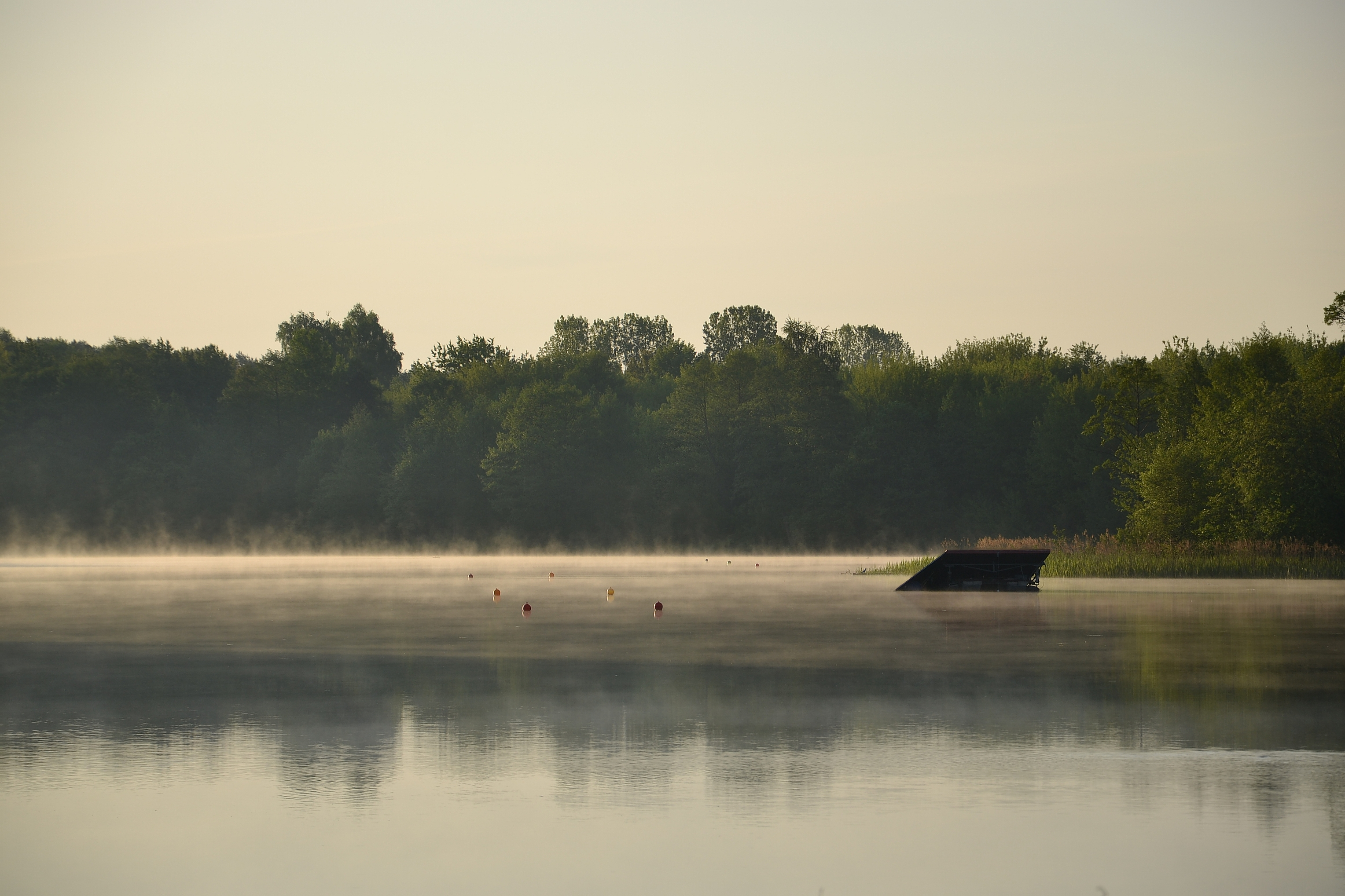 Białe (White) Lake in Augustów, Poland